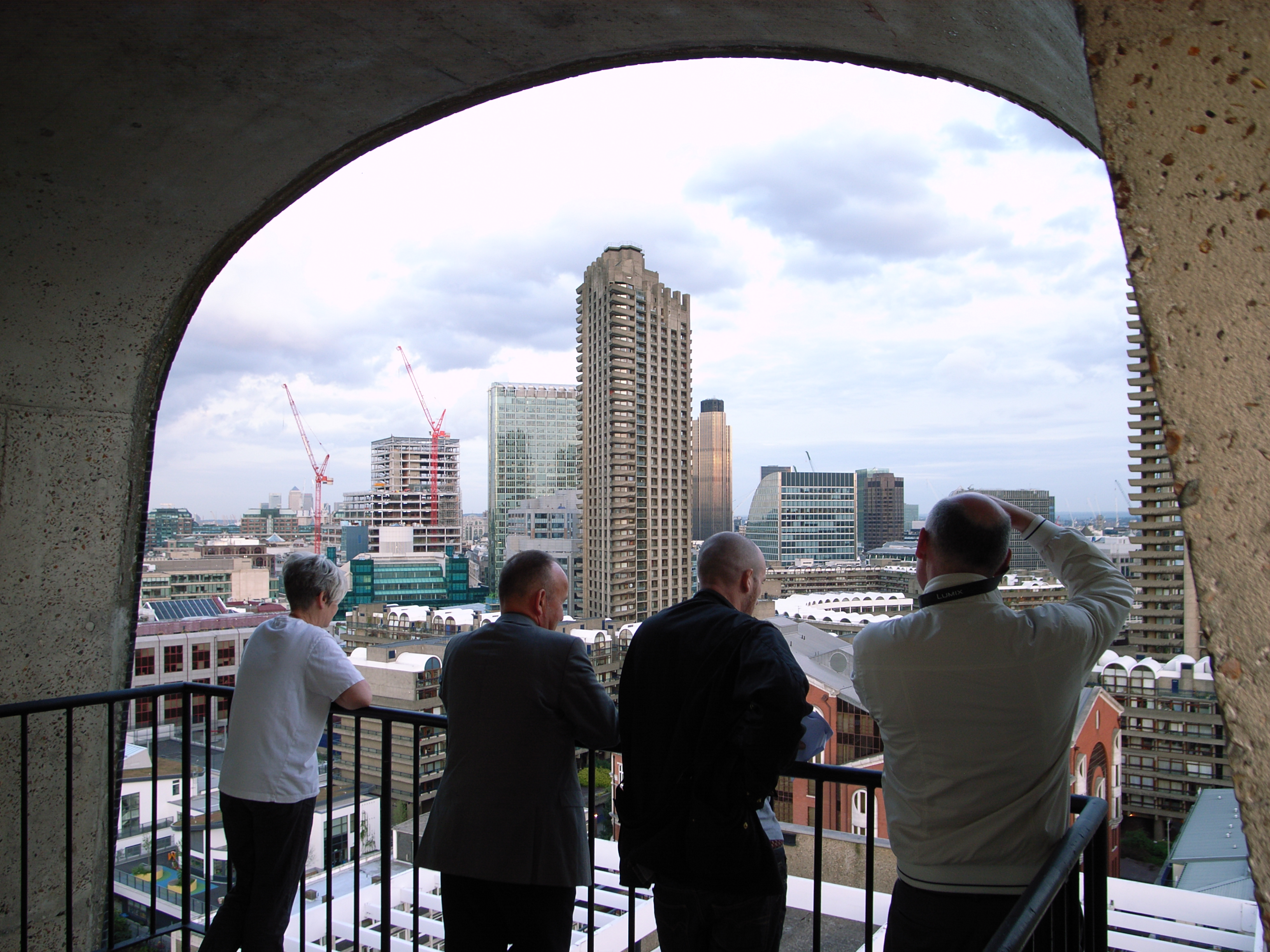 View from the roof of Great Arthur House by Chamberlain, Powell and Bon. Photos taken on a visit to the Golden Lane Estate by the Twentieth Century Society on 4th August 2008.